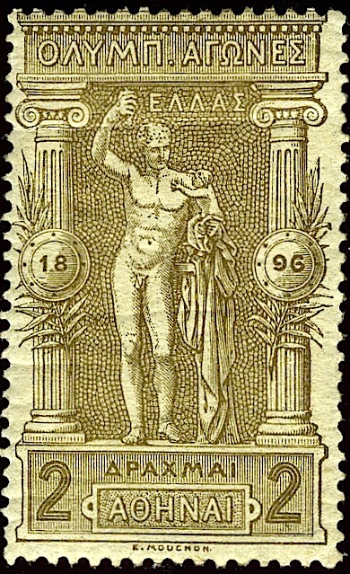 Hermès - Série JO 1896